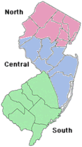 Map of the three regions of the New Jersey Department of Transportation (NJDOT)